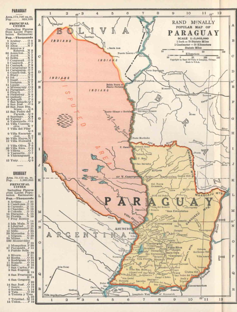 Paraguay map